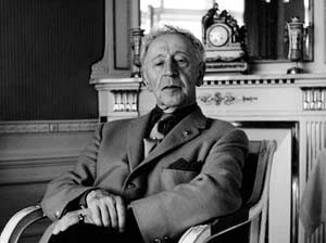 Arthur Rubinstein